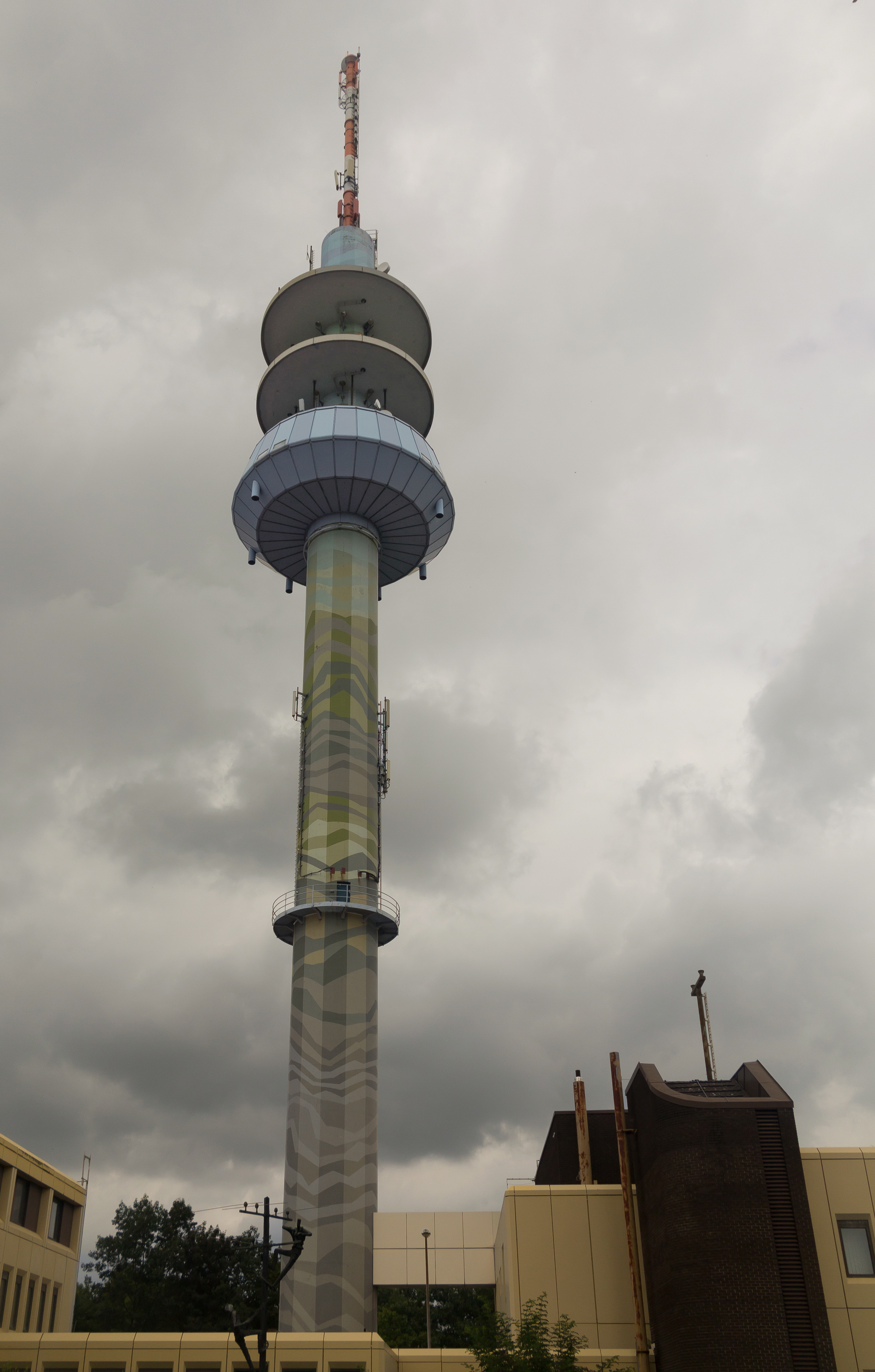 Velbert, tower at der Langenberger Strasse